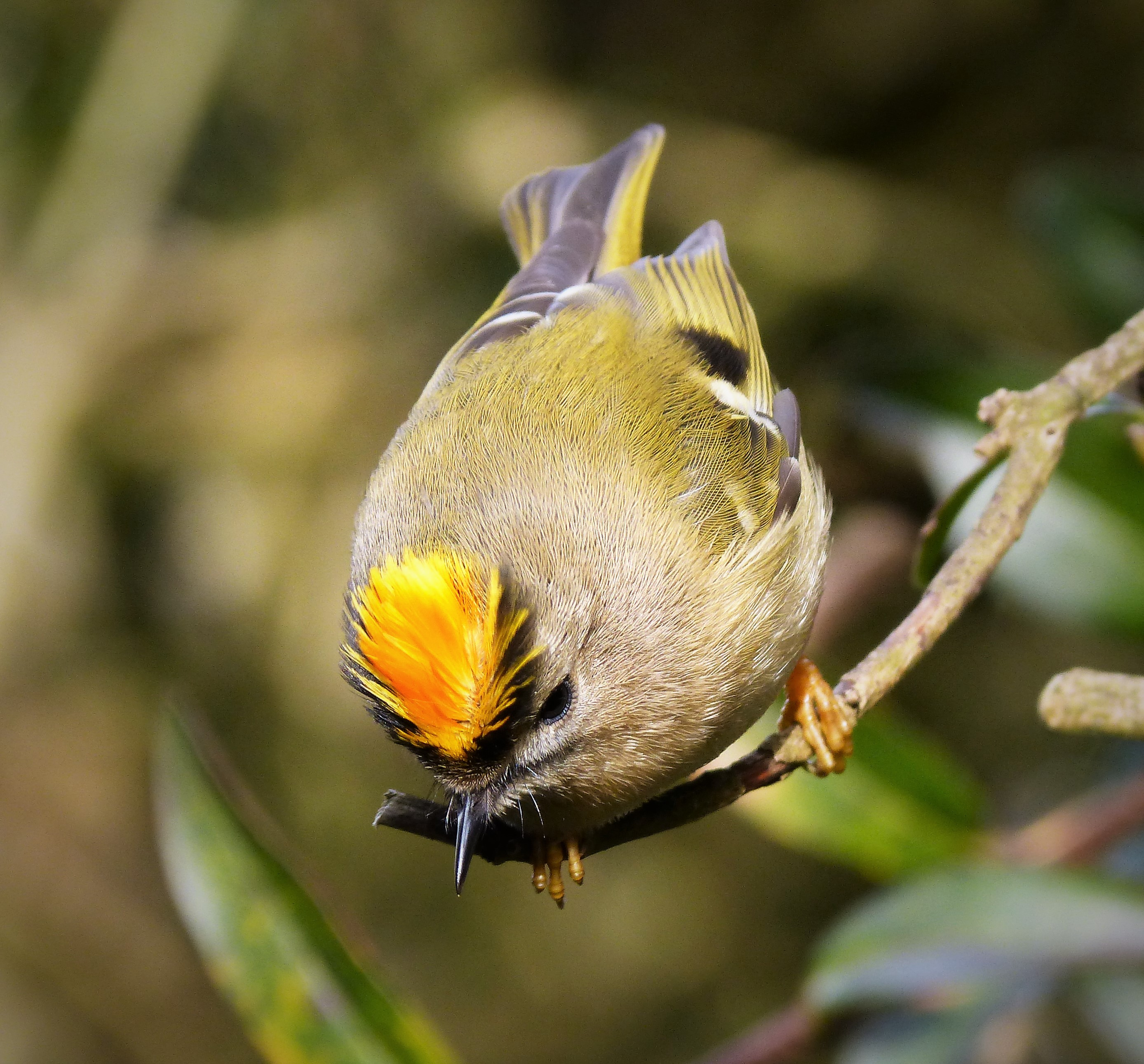 Cradley Malvern, Worcs. SO729470